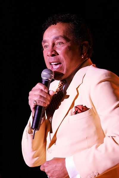 Smokey Robinson in concert at the Chumash Casino Resort in Santa Ynez, California, on August 17, 2006.